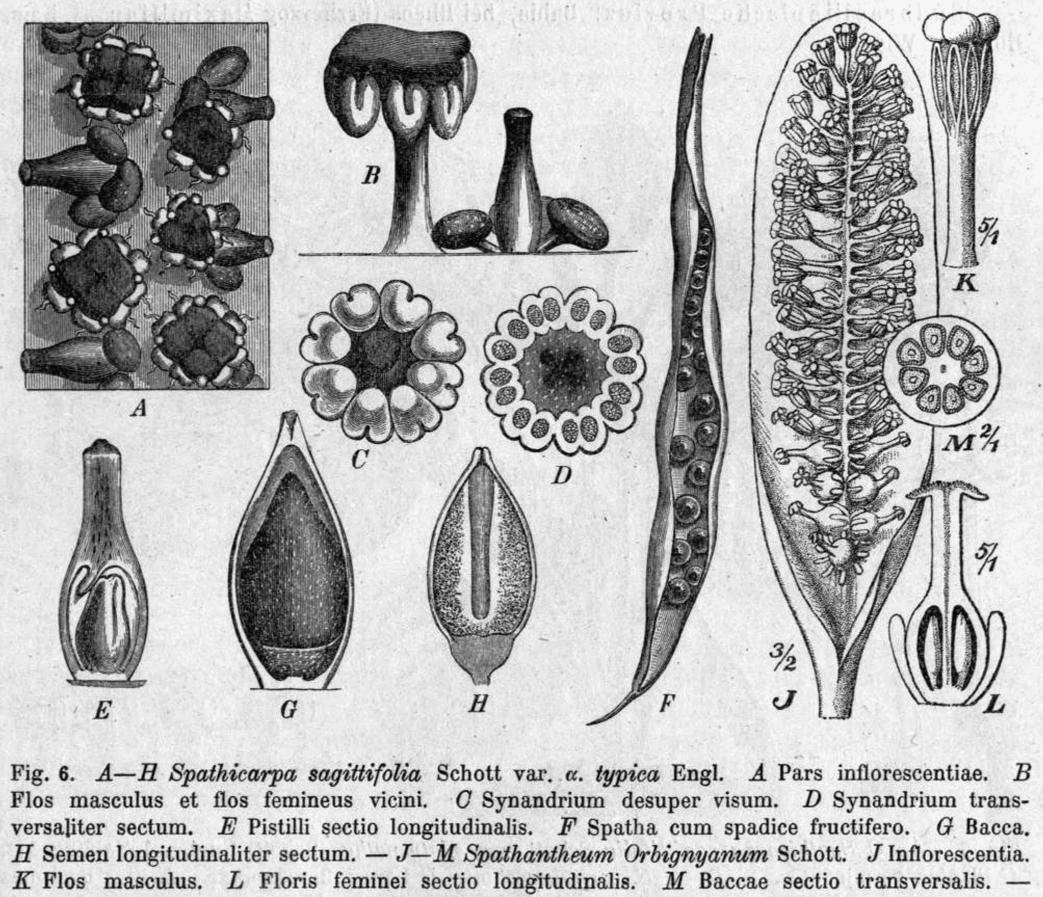 Spathicarpa hastifolia botanical drawing from Das Pflanzenreich